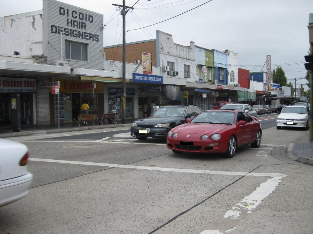 The intersection of Beamish street and Evaline Street in Campsie, New South Wales.